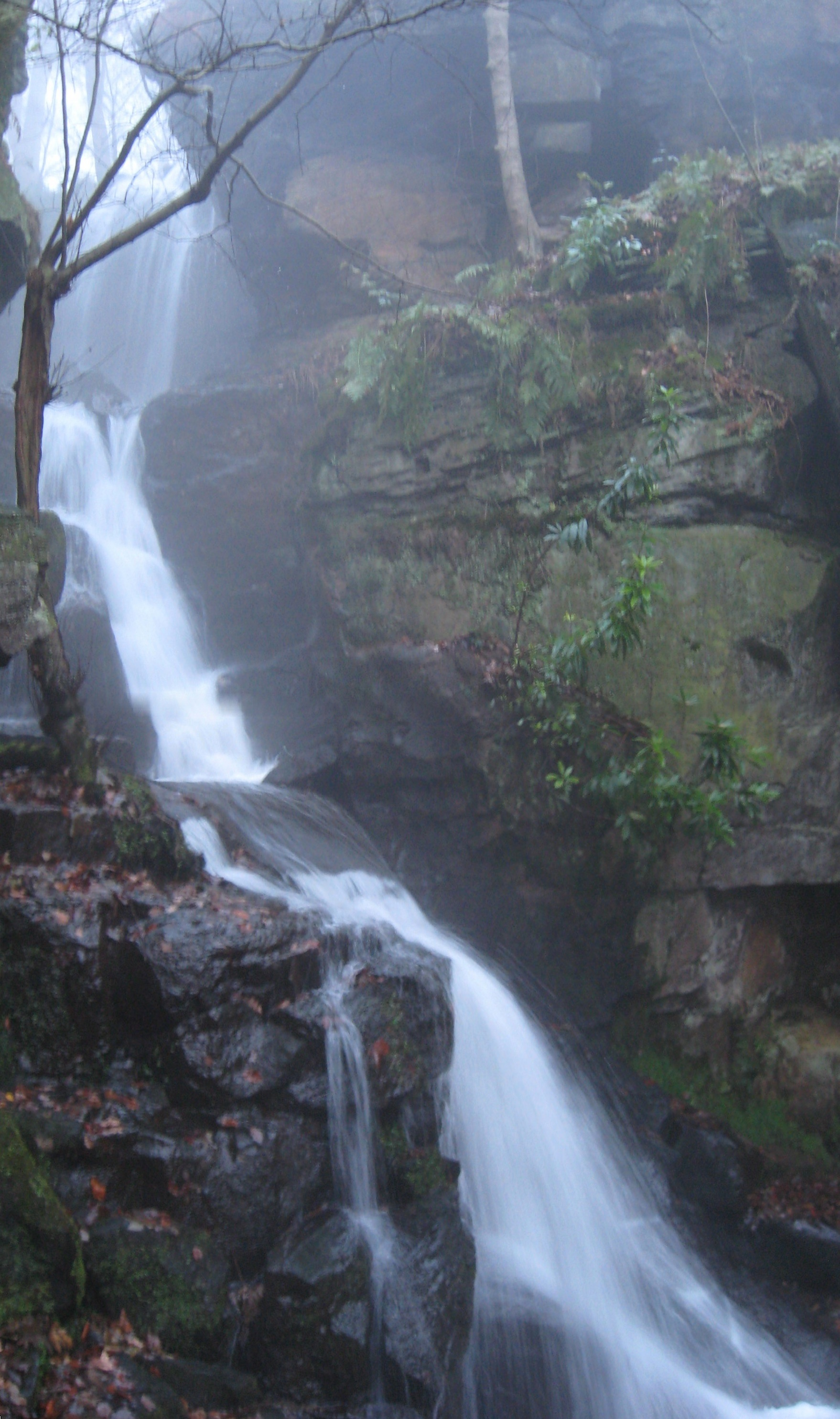 view of Bentley Brook waterfall on foggy day, nr grinding mill in Derbyshire